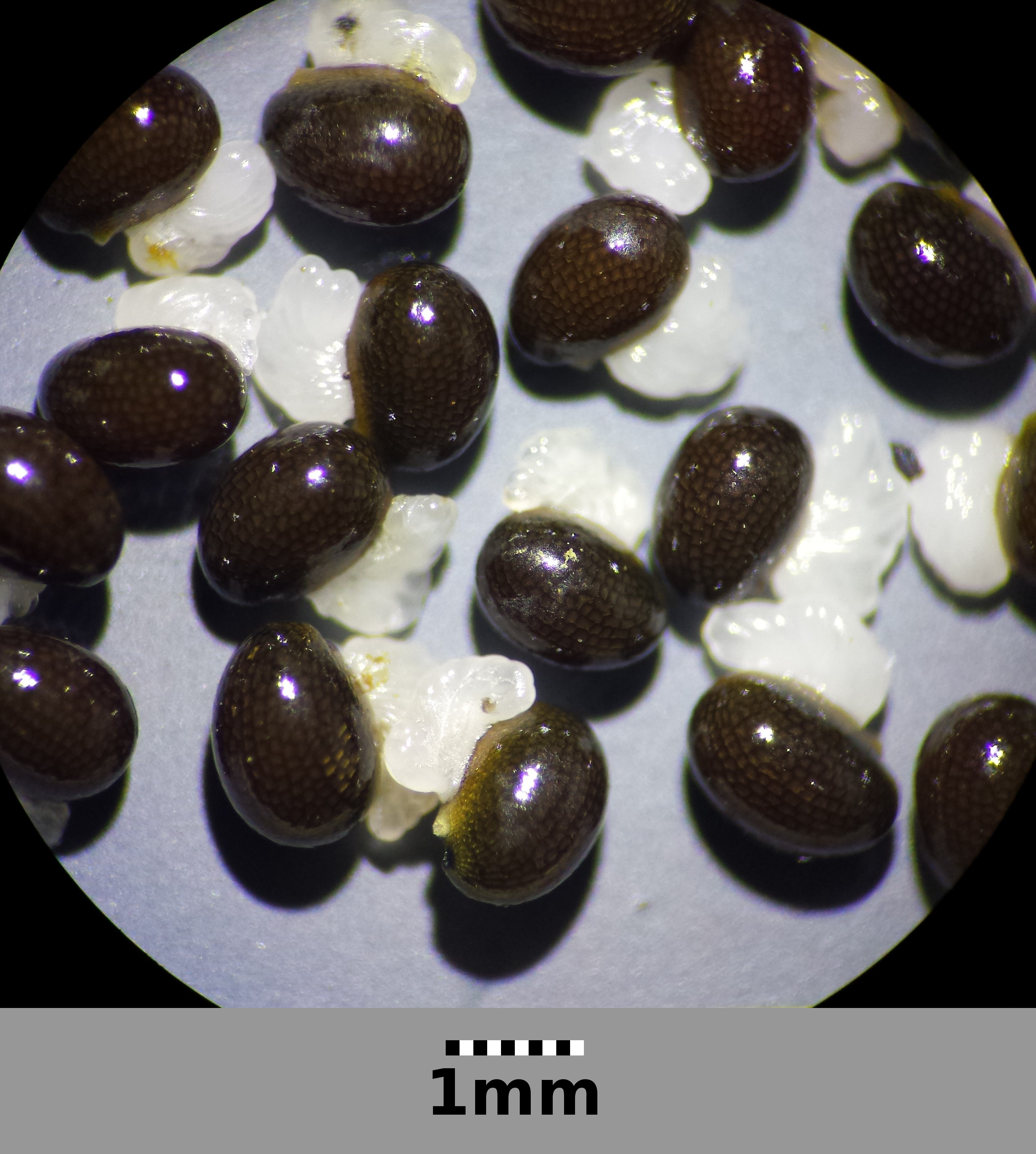 Seeds Taxon: Chelidonium majus (sensu Fischer et al. EfÖLS 2008 ISBN 978-3-85474-187-9) Location: Floridsdorf rail station, Vienna-Floridsdorf - ca. 160 m a.s.l. Habitat: ballast